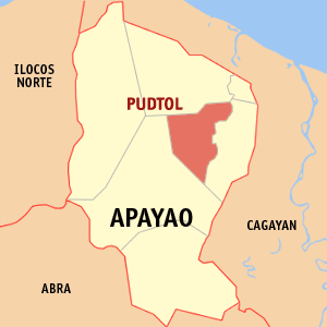 Map of Apayao showing the location of Pudtol